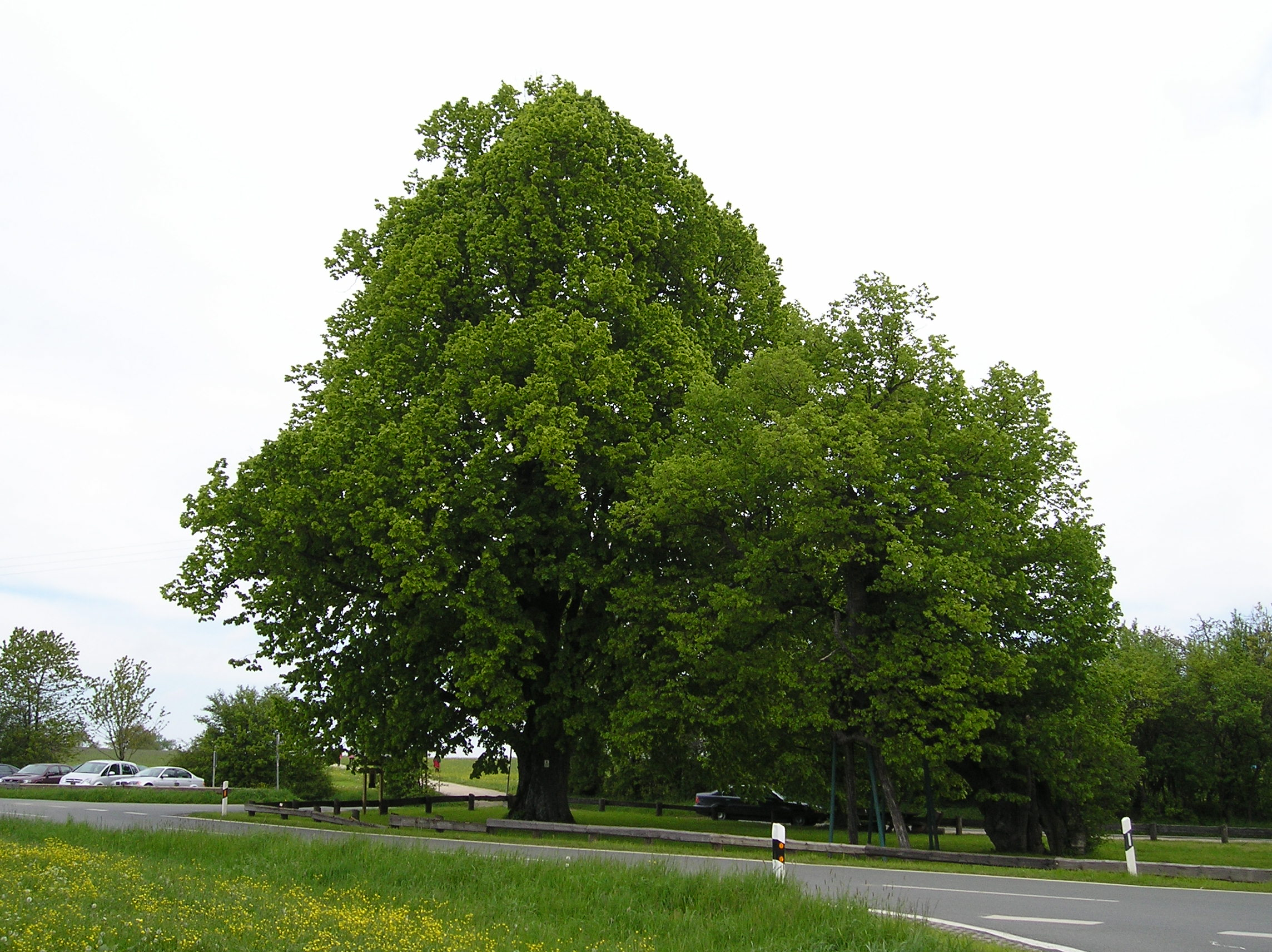 The new (left middle) and the old (right middle) lime tree of the village of Kasberg (belongs to the town of Gräfenberg in the Franconian Swiss mountain range, Germany).